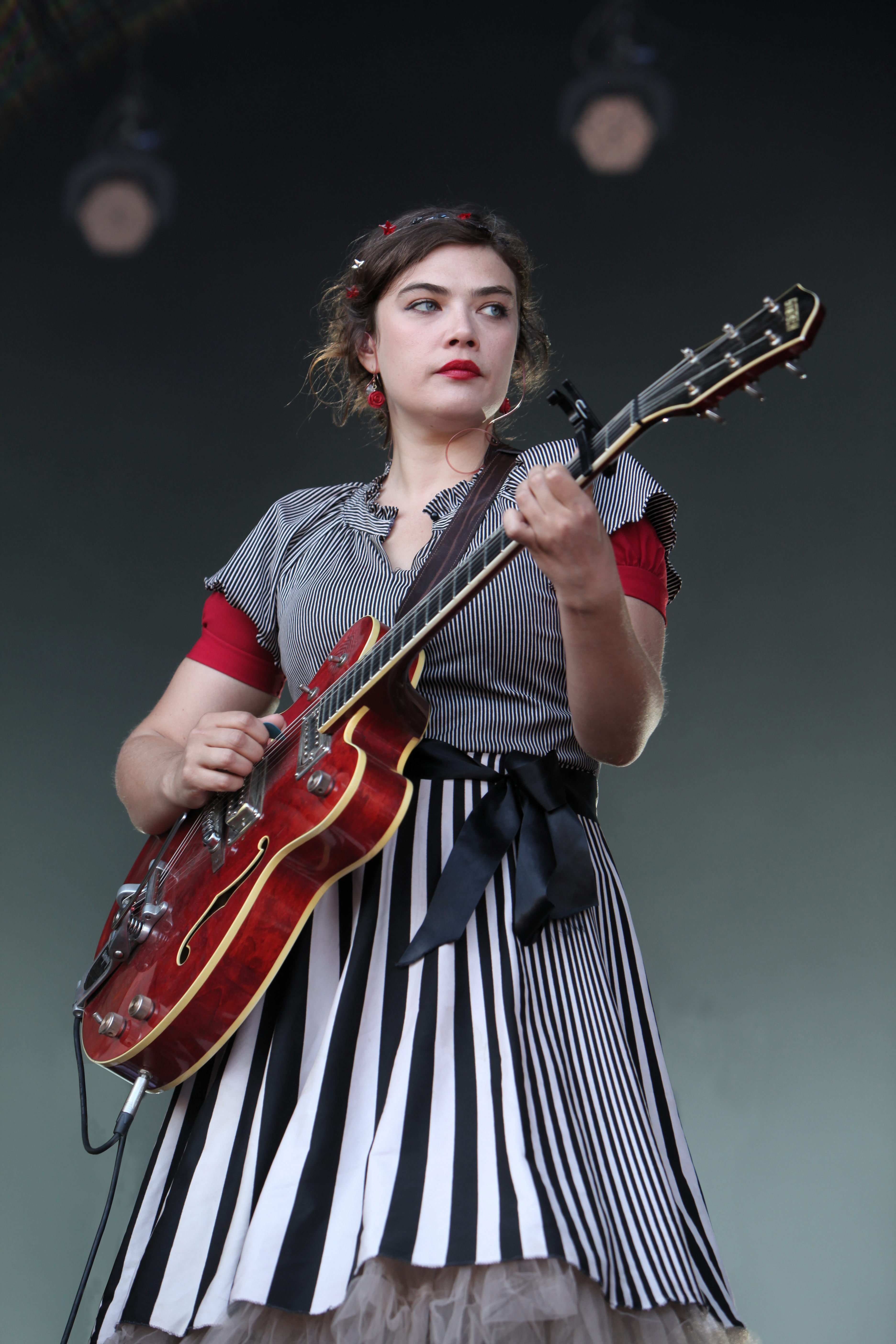 Rosemary Standley, of Moriarty, on stage at the Eurockéennes de Belfort 2011. The making of this document was supported by Wikimedia CH. (Submit your project!) For all the files concerned, please see the category Supported by Wikimedia CH.